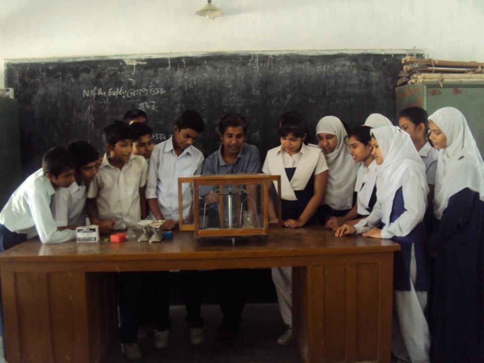 Physics lab of RUS